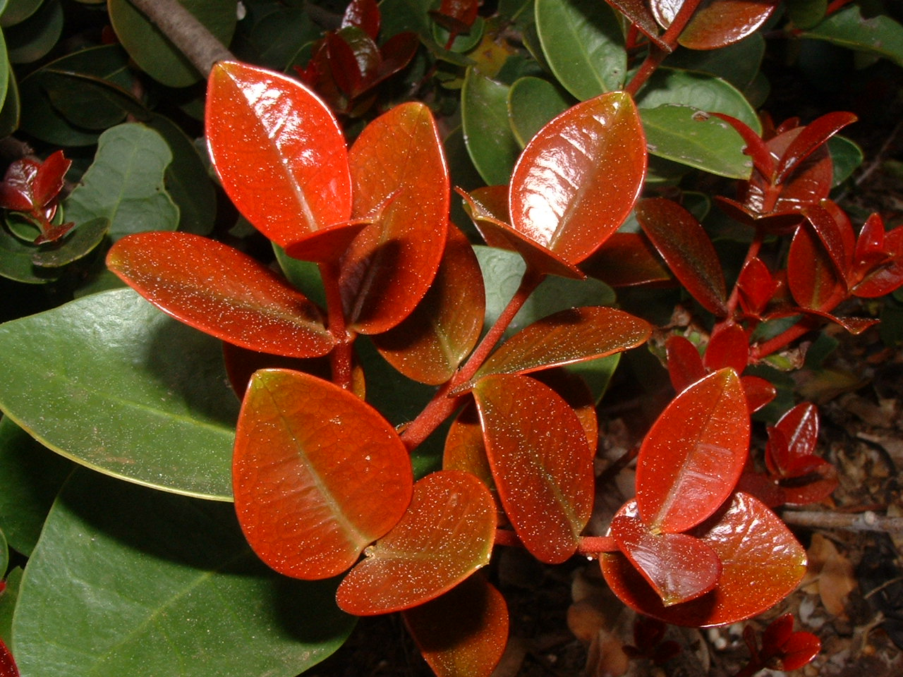 Maurocenia frangula or the Hottentots Cherry Tree. Cape Town